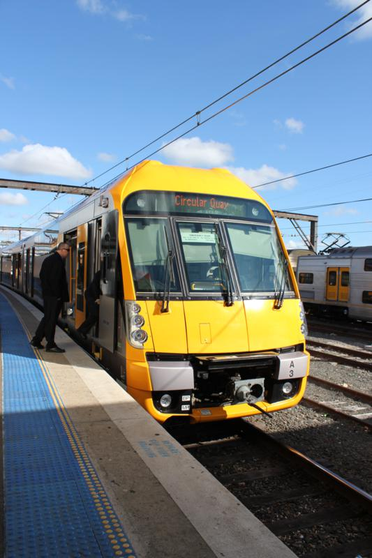 a set carriage end front/back